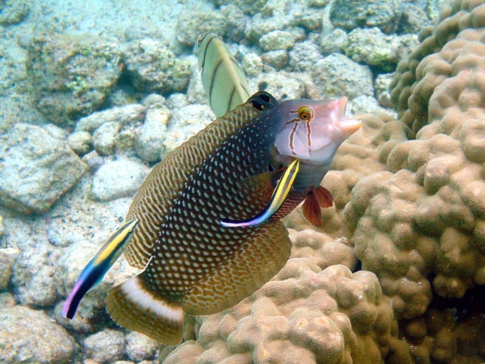 A dragon wrasse, Novaculichthys taeniourus being cleaned by Rainbow cleaner wrasses, Labroides phthirophagus on a reef in Hawaii. Photograped by Brocken Inaglory at cleaning station in Kona, Hawaii